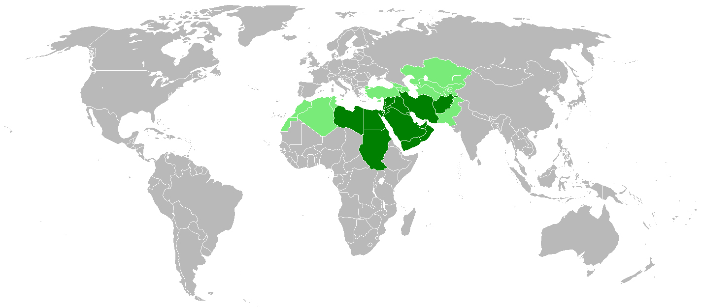 World map of the middle east Dark green = countries usually considered part of the middle east Light green = countries sometimes considered part of the middle east